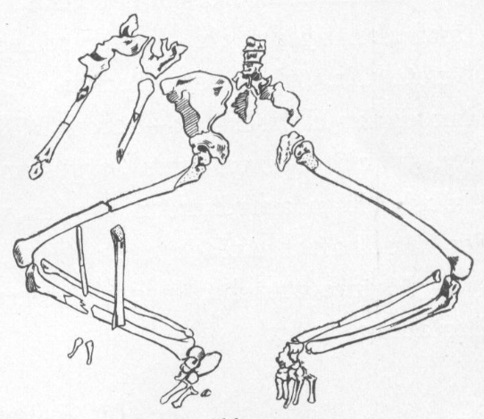 undated burial